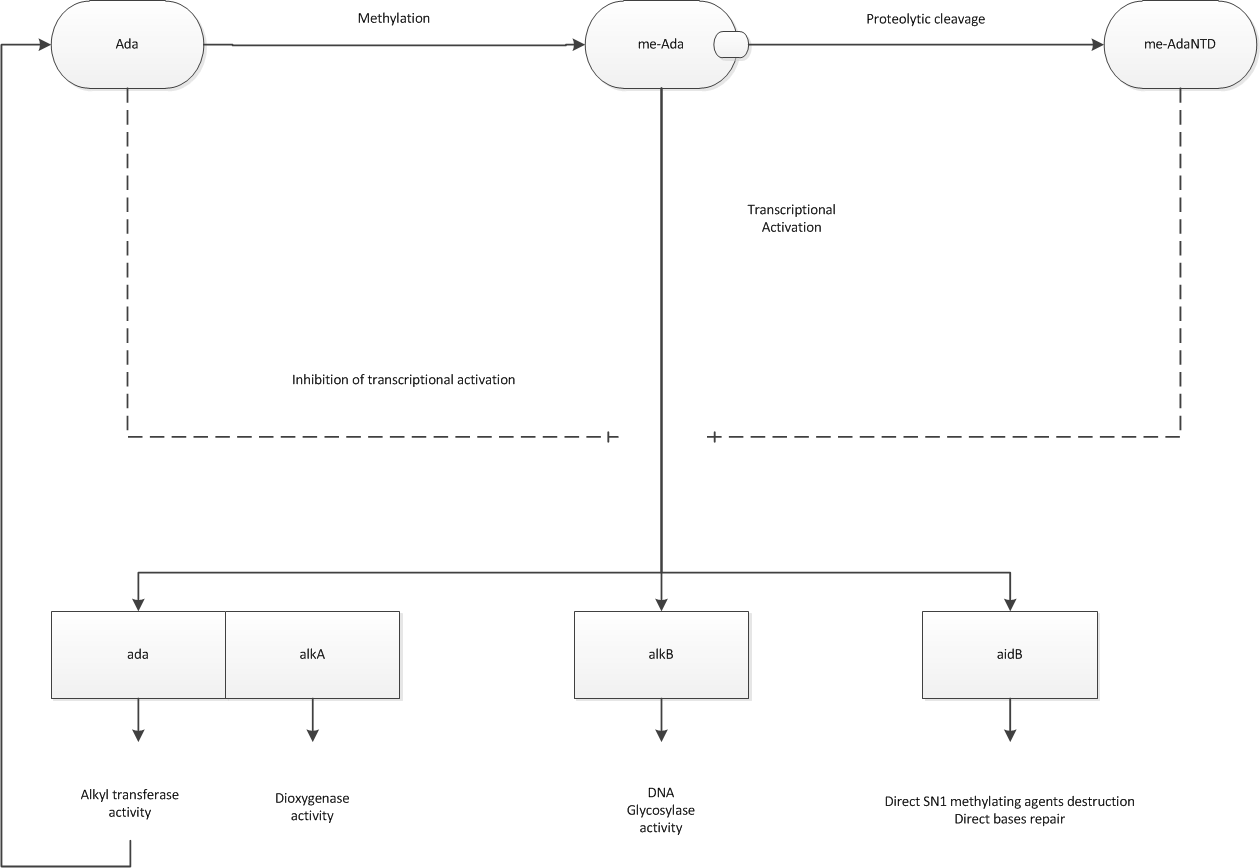 This describes the transcriptional activation of the Ada Regulon